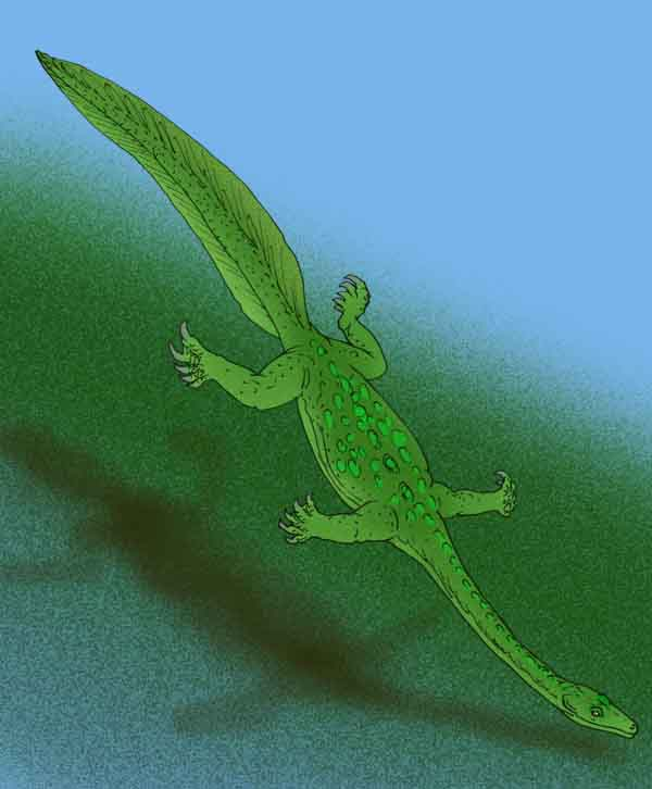 The Cretaceous choristodere reptile, Shokawa ikoi, from what is now Japan